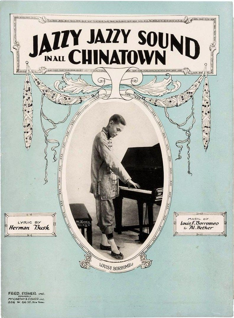 Cover of "Jazzy Jazzy Sound in All Chinatown," by Louis Borromeo (featured in cover wearing a costume) , Al. Hether, Herman Bush